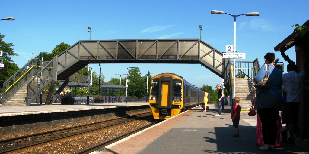 First Great Western's 158958 arrives at Trowbridge, Wiltshire, with a service from Cardiff Central to Portsmouth Harbour.